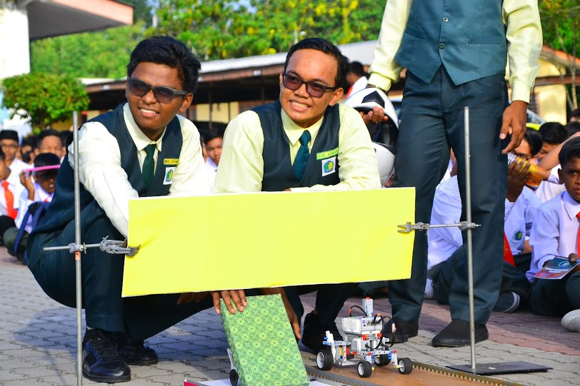 Cekap tenaga 8